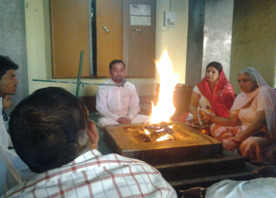 hawan doing by shastri g, Aryas and Aaryan Soni